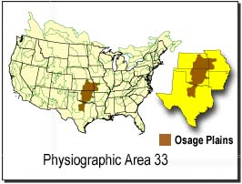 Map showing location of the Osage Plains